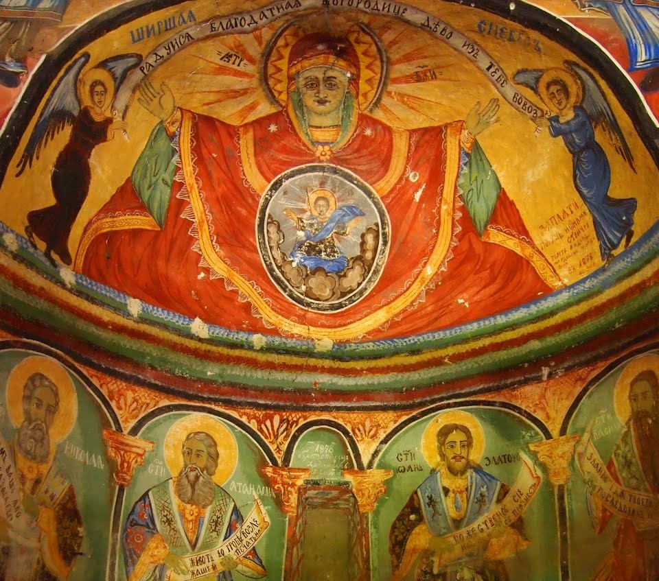 Frescos from Dolnopasarel monastery, painted by the painters Mihail Blagoev and Hristo Blagoev in XIX century.